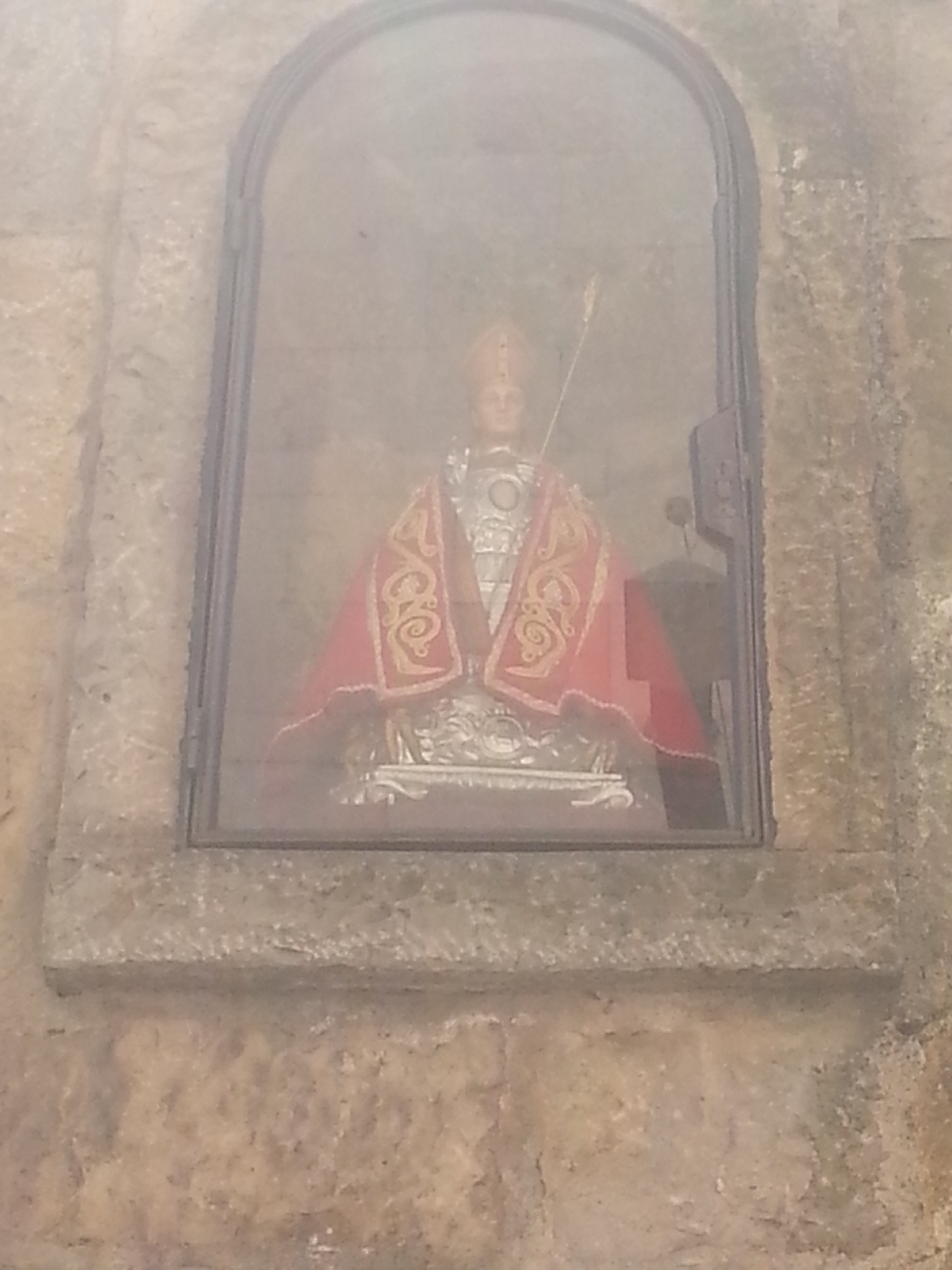 Pamplona,Spain